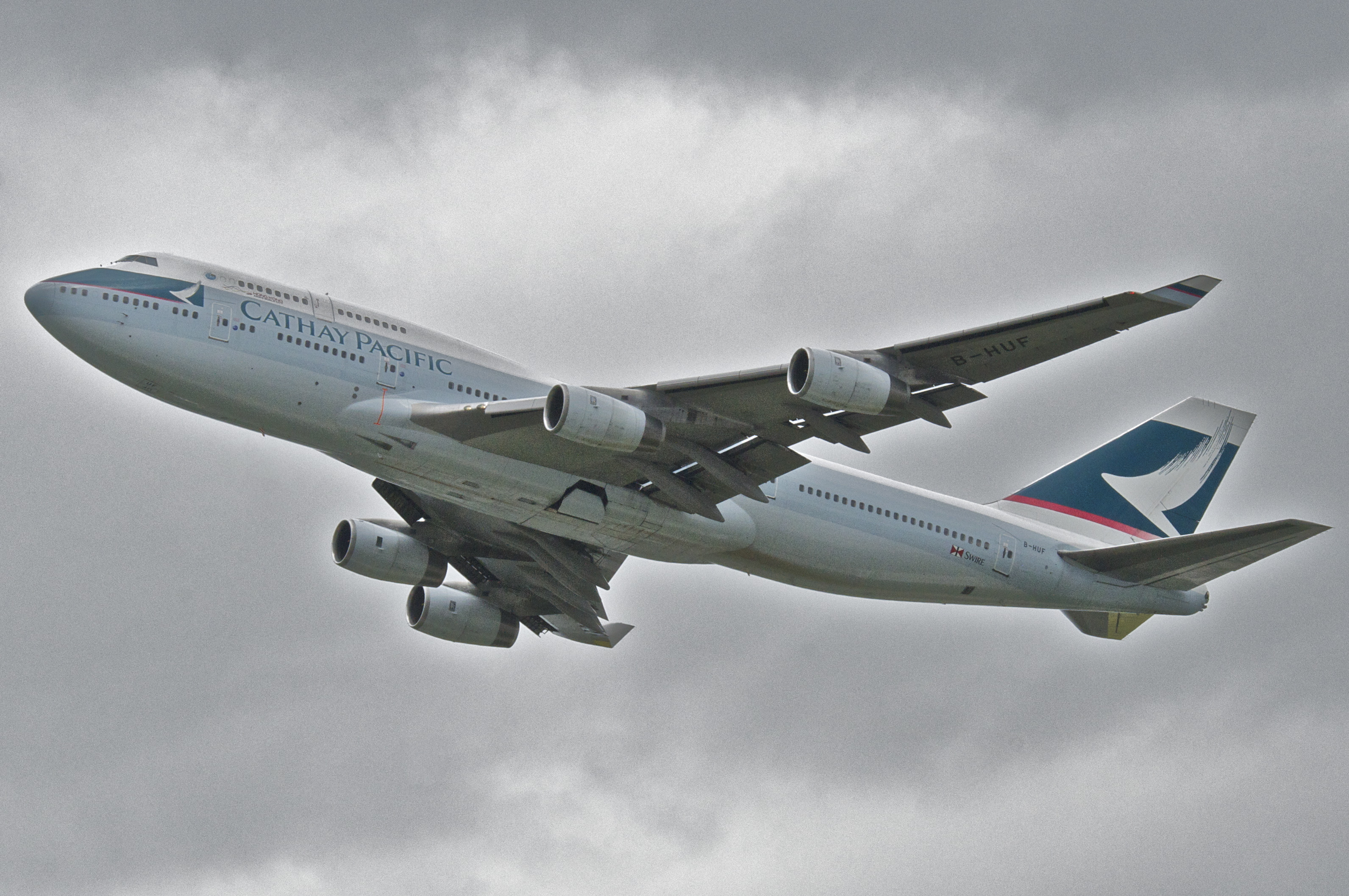 This Boeing 747-467 took its first flight on August 5, 1993...(c/n 25869/ 993) 20/08/1993 Cathay Pacific VR-HUF 08/08/1997 Cathay Pacific B-HUF